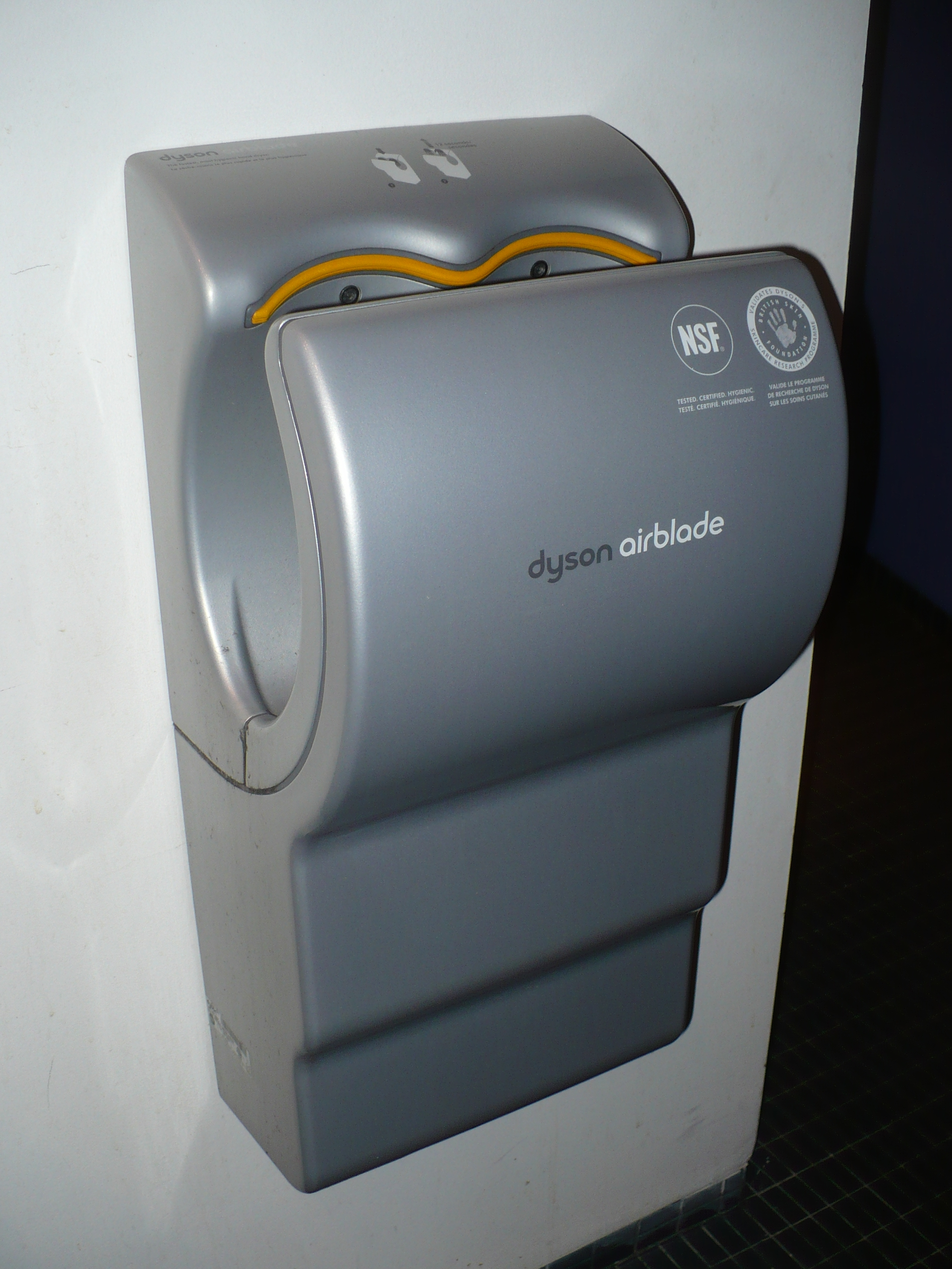 Dyson Airblade installed in the Design Exchange in Toronto